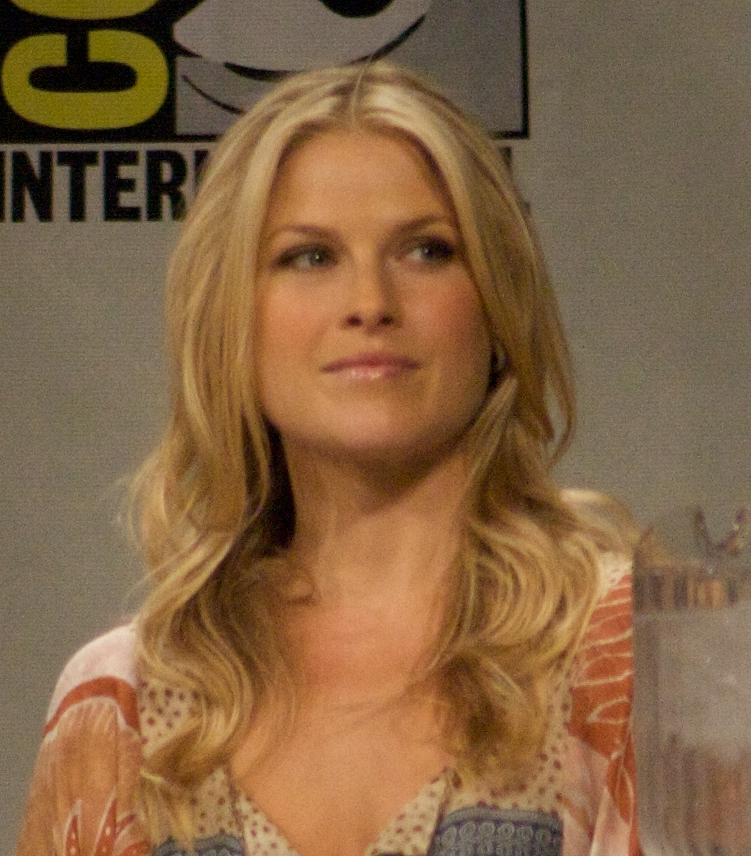 Ali Larter at the comic-con Heroes panel. July 26, 2008